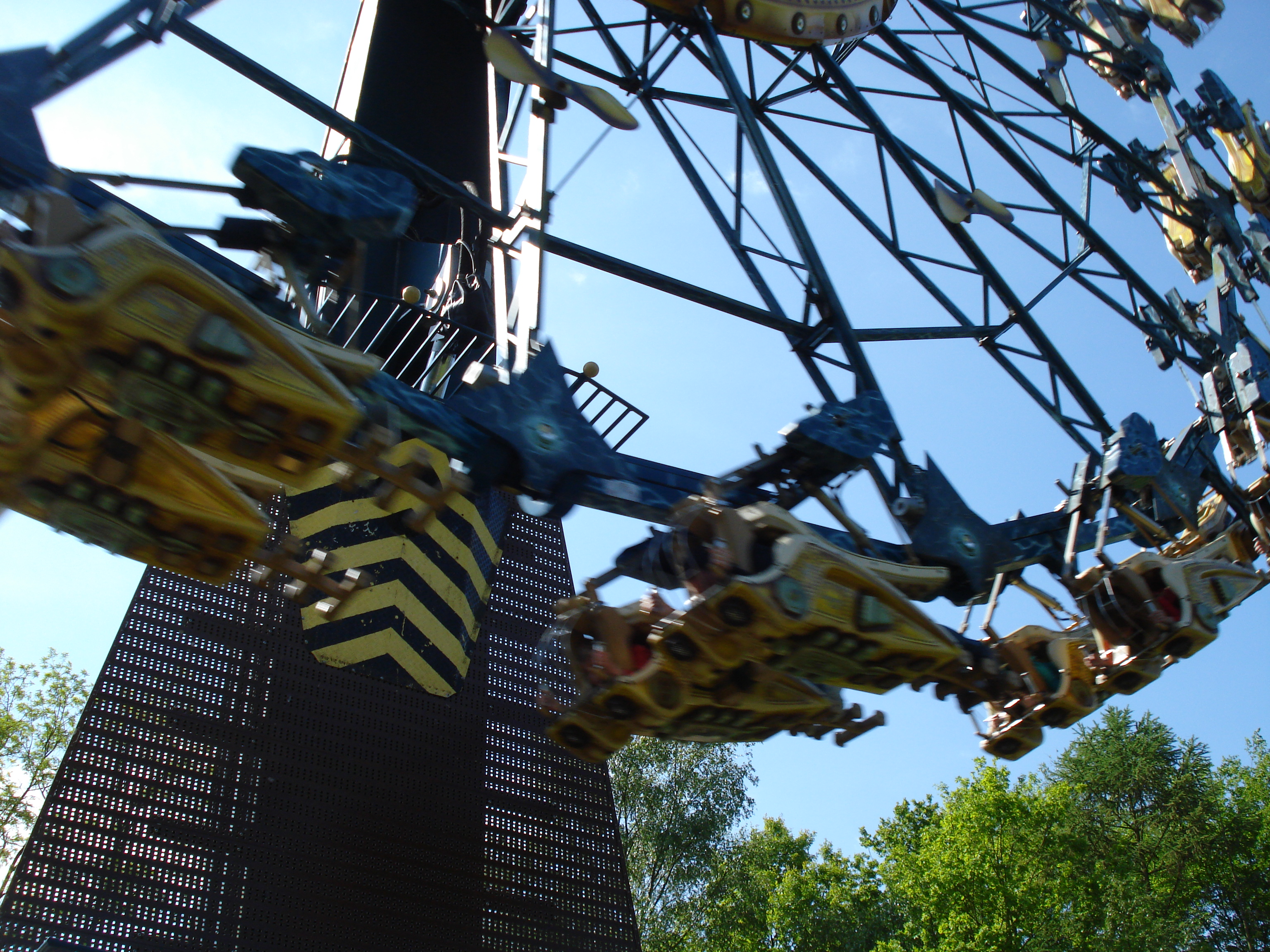 Bobbejaanland Fly Away